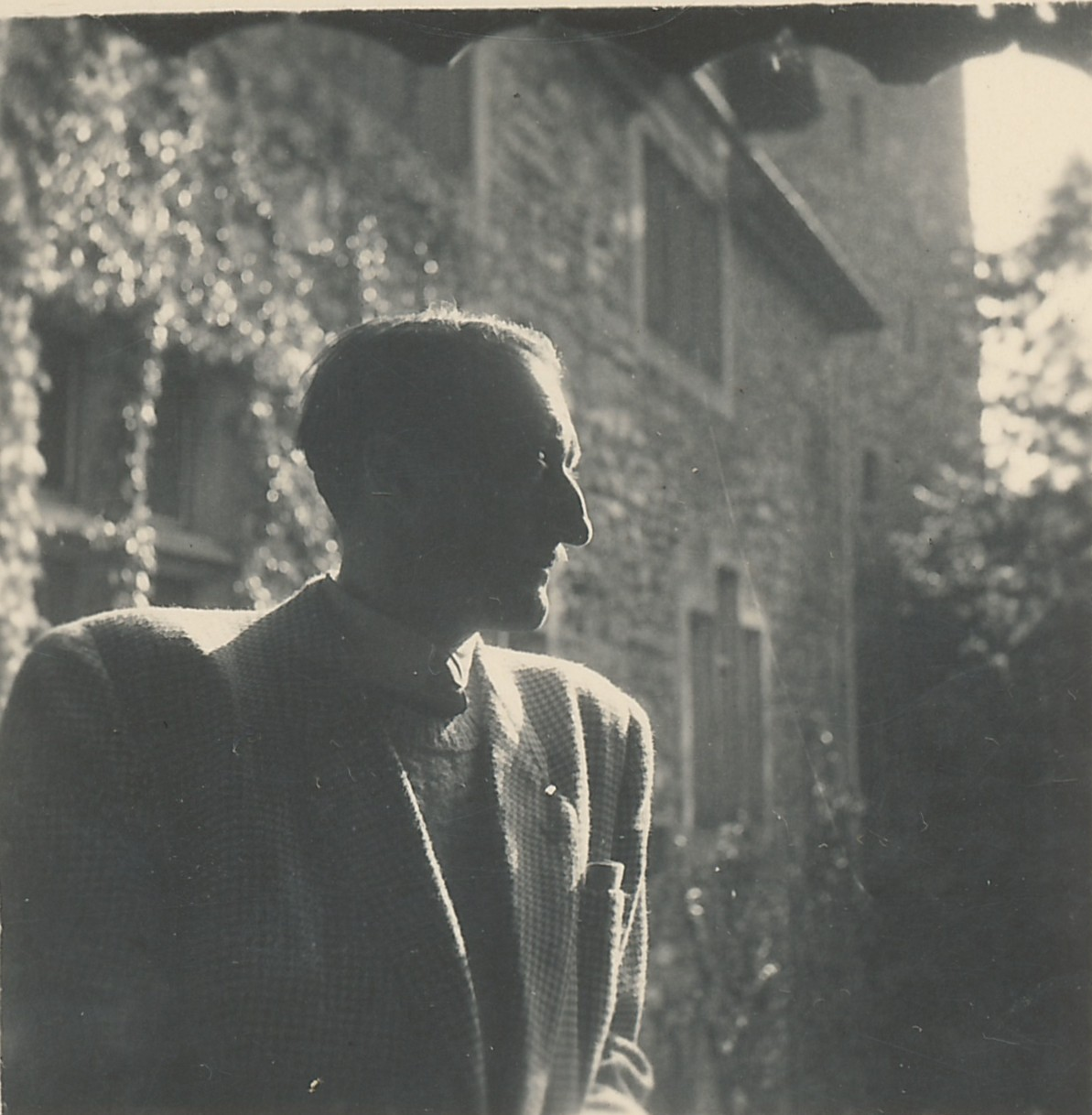 It's my own faithful copy of next photograph from Maciej Masłowski family archive: "Maciej Maslowski,Muzeum Polskie, Schloss Rapperswil, July-August 1948"